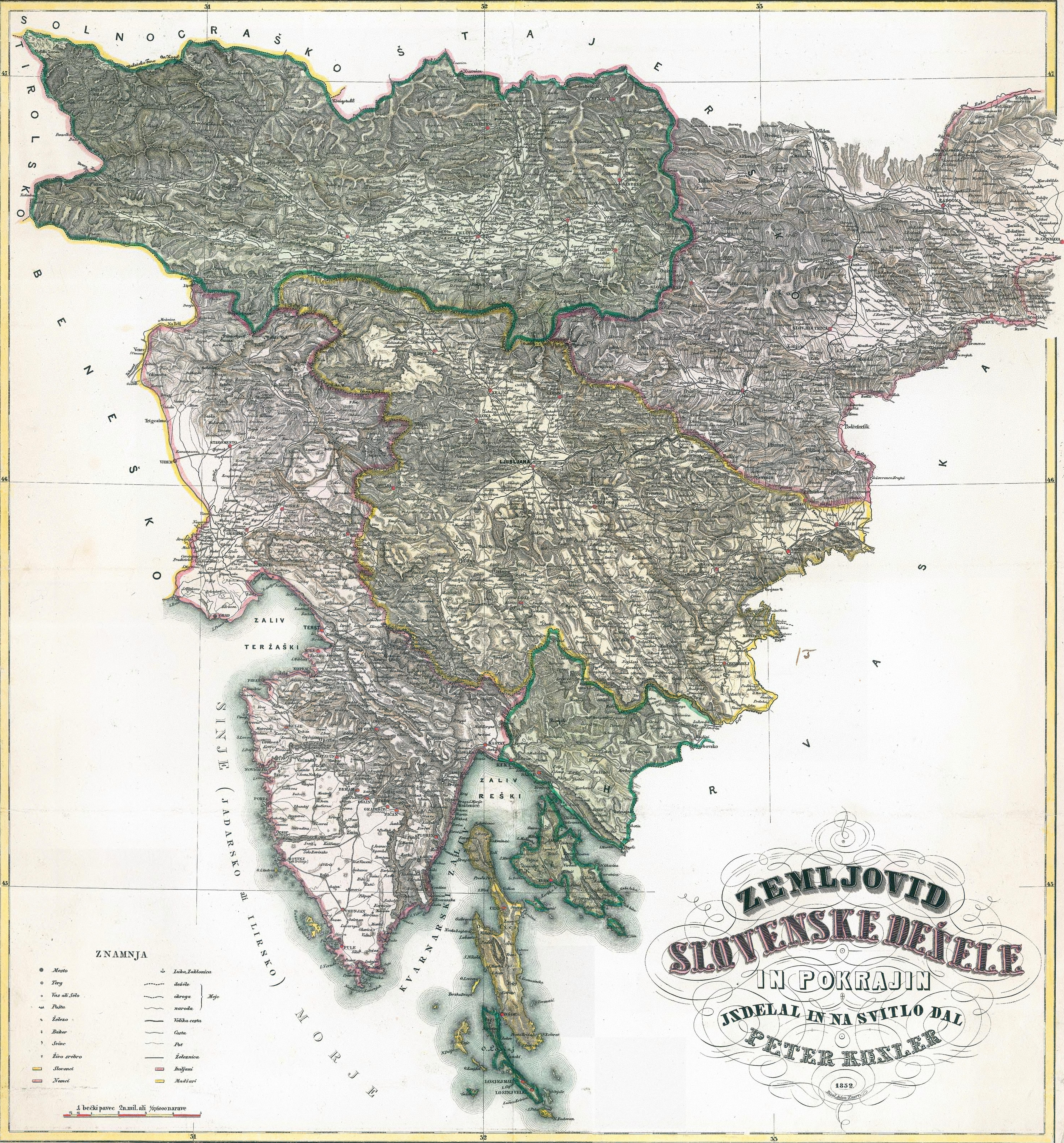 A map of the Slovene Land and Provinces, author Peter Kozler